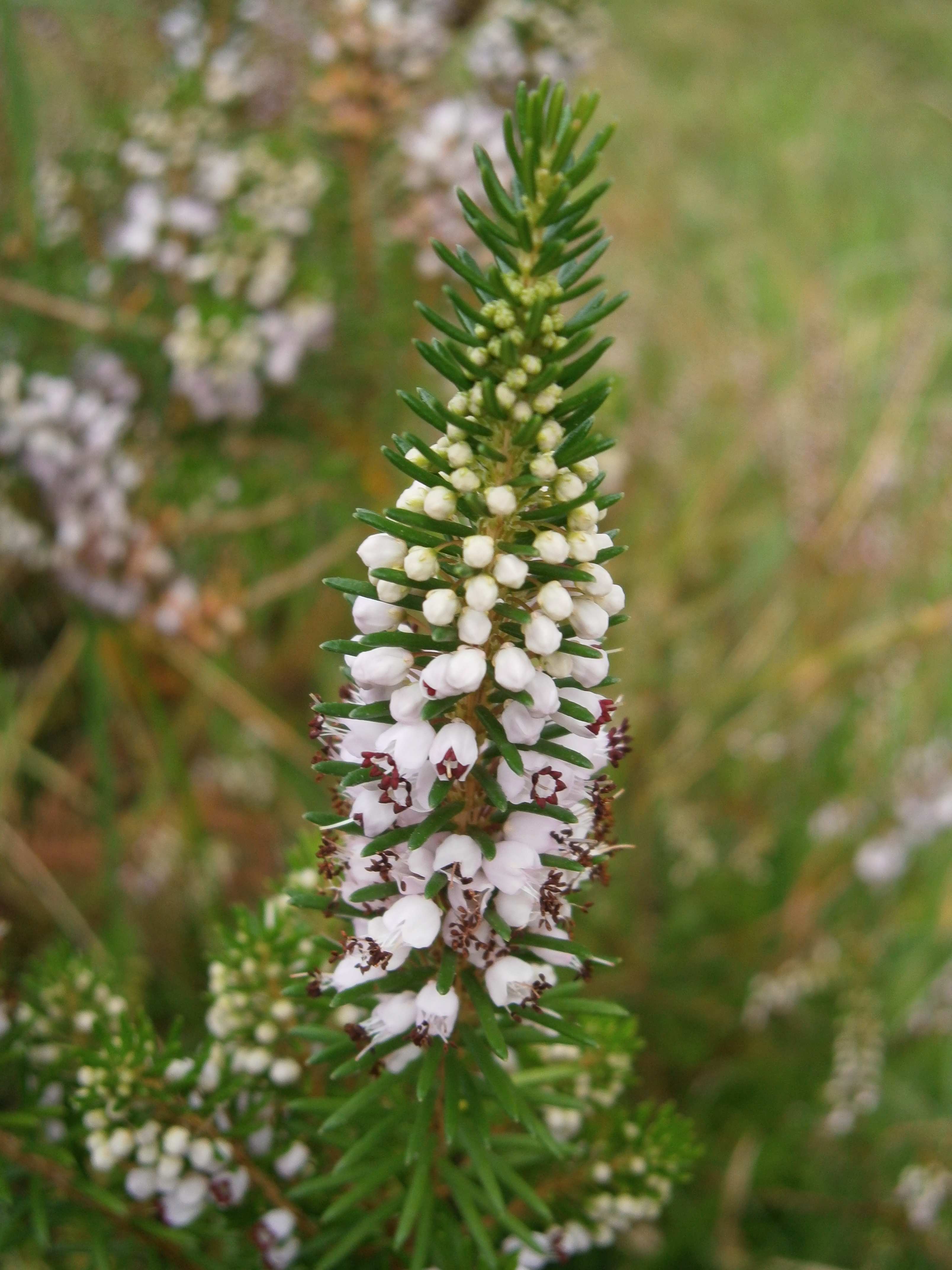 Erica vagans 'Alba'